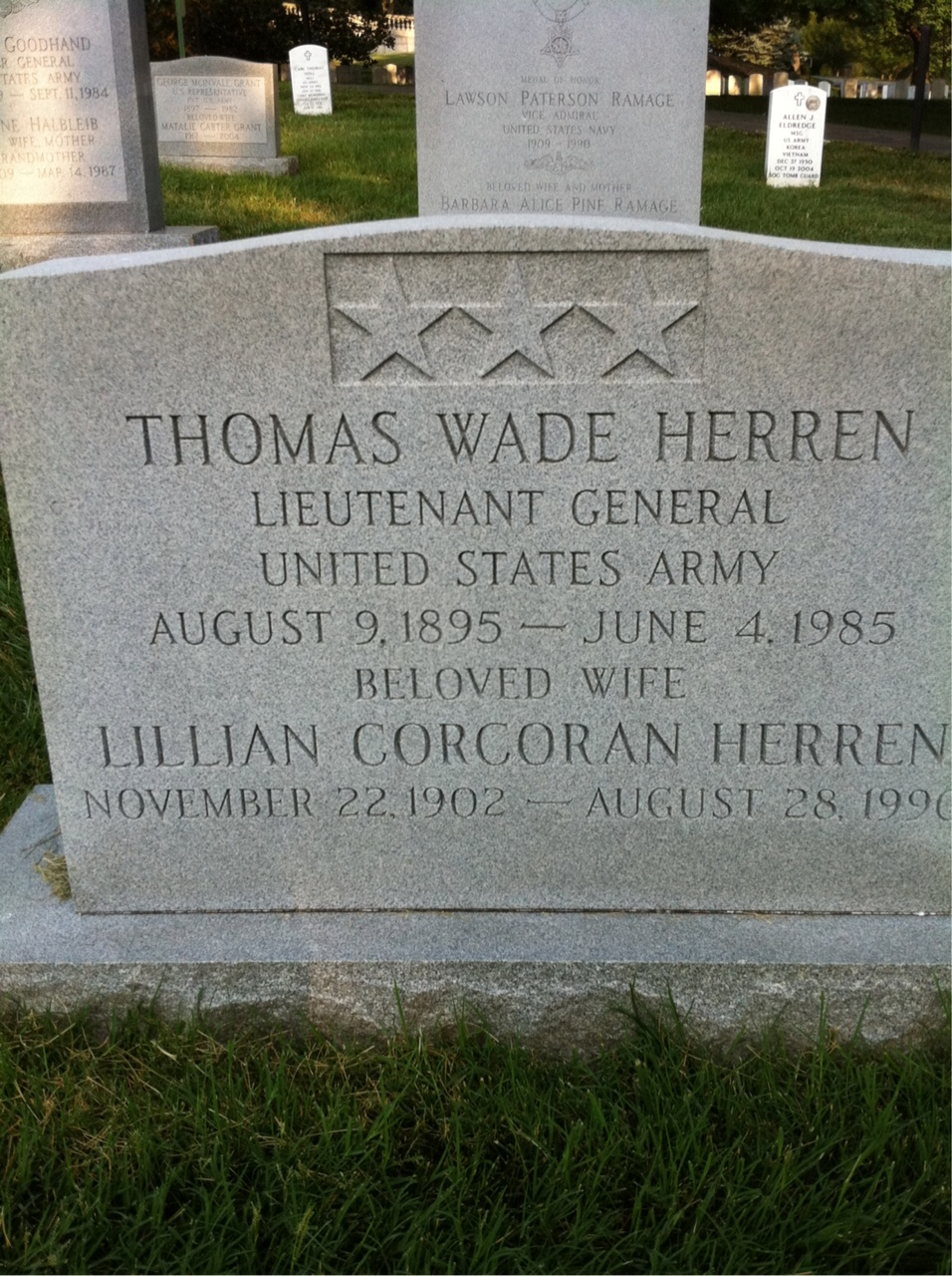 Grave of Thomas W. Herren at Arlington National Cemetery